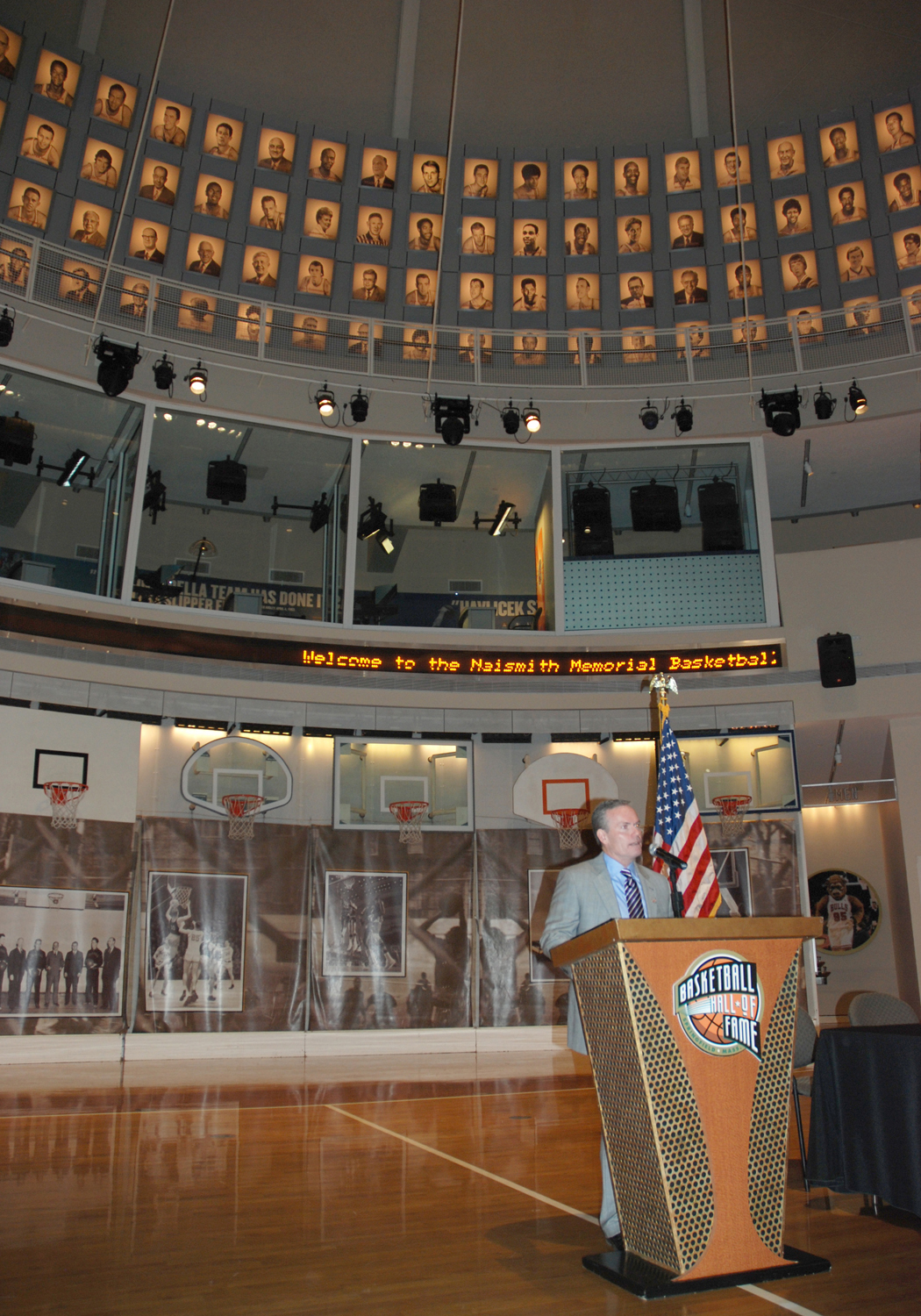 John Doleva, President and CEO of the Basketball Hall of Fame in Springfield, Mass., speaks at a ceremony in which he signed a statement of support for the National Guard and Reserve Dec. 7. (US Air Force photo/Lt. Col. James Bishop)